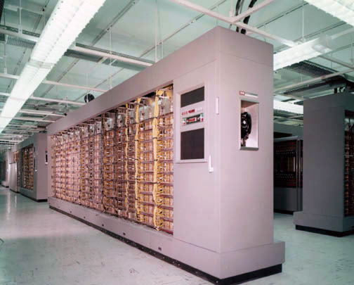 AN/FSQ-7 computer at SAGE computer room, taking up the second floor of the basic SAGE Sector Control Center "cube".